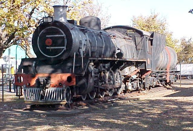 SAR Class 19D 2696 (4-8-2) Builder's Number: Borsig 14747 Tender: Type MX Vanderbilt Location: Volksrust, Mpumalanga